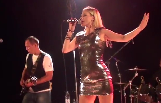 Jelena Rozga - Kataka